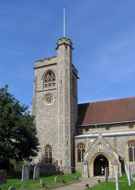 St Mary, Welwyn, Herts